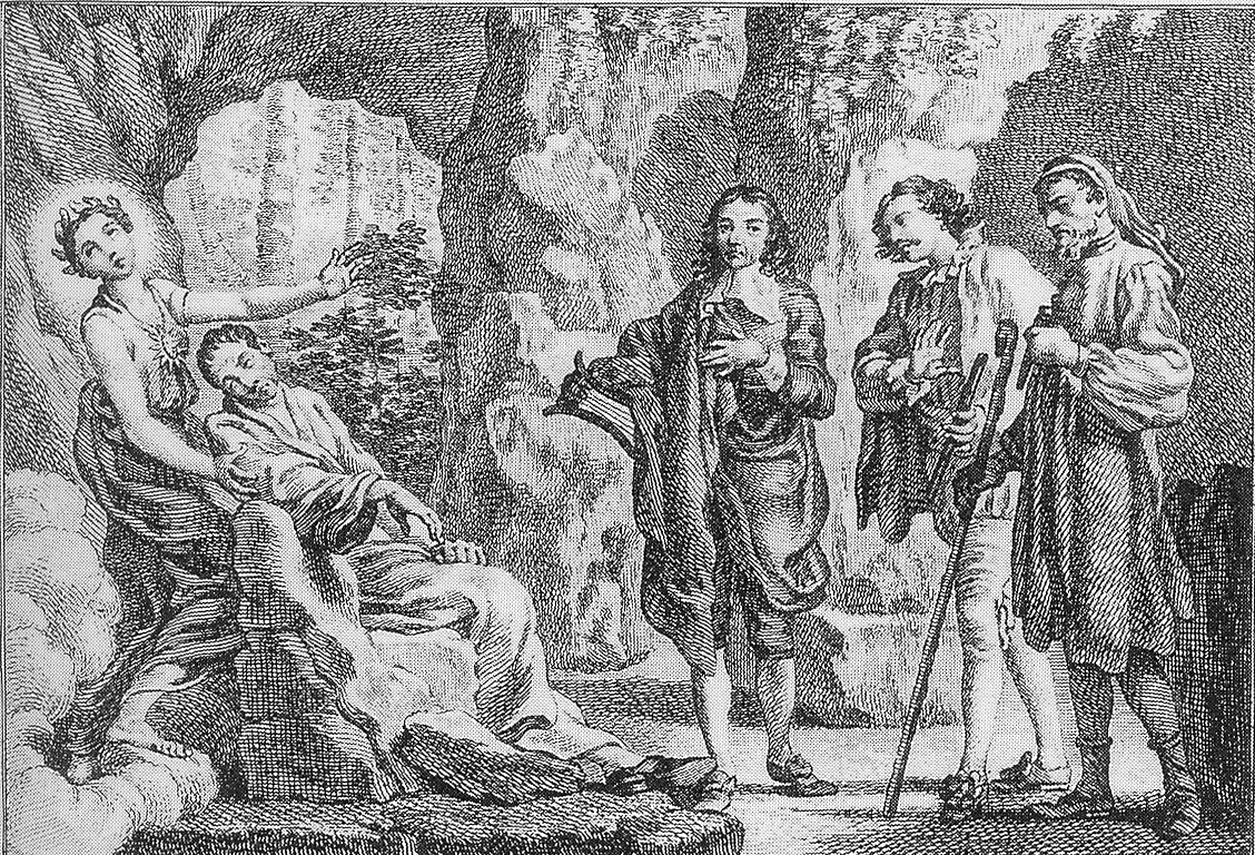 Alexander Pope dying; from the title page to William Mason's Musæus: a monody to the memory of Mr. Pope, in imitation of Milton’s Lycidas (1747). The following, the source of the artist information verified by the description of the image, is from the opening paragraph (on the sample page) of: “Postscript to the Odyssey”: Pope’s Reluctant Debt to Milton by James Gray. Wiley Online Library. Milton Quarterly, Volume 18, Issue 4, p. 105. 1984. Version of record online: 3 APR 2007. "If it is true that every picture tells a story, the vignette drawn by Francis Hayman and engraved by Charles Grignion in 1747 for the title page of William Mason’s Musaeus: A Monody to the Memory of Mr Pope, In Imitation of Milton’s Lycidas is a notable illustration of that truth. The scene, appropriately, is a grotto, in which a female figure, representing Fame or Virtue, and wearing the creative sunburst or halo of Apollo, is supporting the seated figure of the dying Alexander Pope, while three deeply concerned poets - Milton, Spenser, and Chaucer -all look on. Spenser, in pastoral dress, is the most moved, as he laments the passing of another Colin Clout; Chaucer’s eyes are closed as he meditates once more the shortness of this life; but Milton has a partly wistful, partly pained look, as he clings to his lyre with one hand and, with the other, held reverently across his breast, salutes his declining successor." Due to the date being before Charles Grignion the Younger's birth (see Category:Charles Grignion the Younger), this must have been engraved by Charles Grignion the Elder.